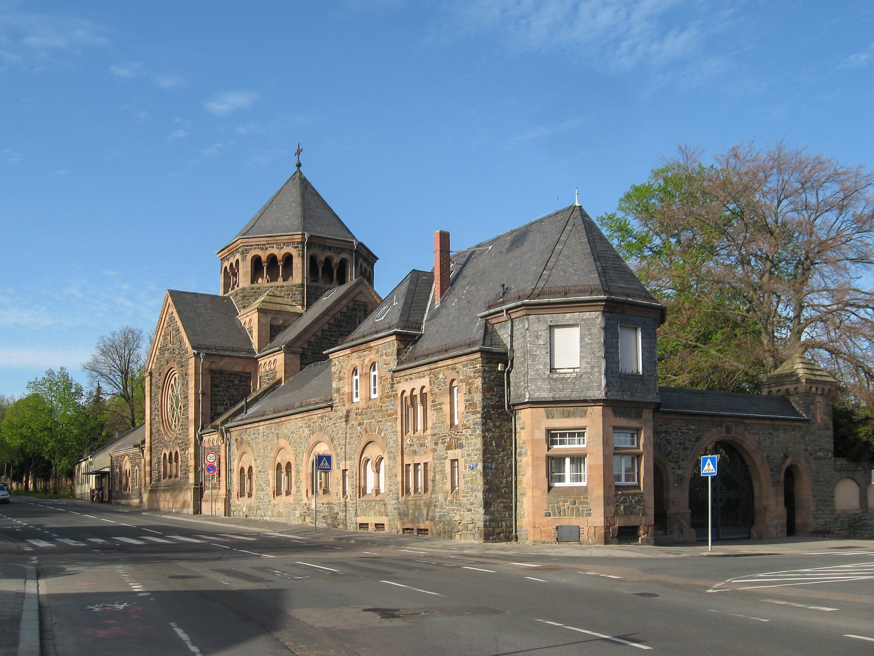 Hauptfriedhof Hochheimer Höhe, Worms, Germany